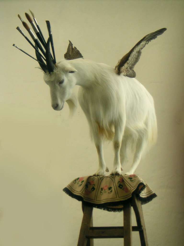 ”I love Paris”, part of an assemblage by Ismo Kajander (2006). From The Saastamoinen Foundation Art Collection, EMMA - Espoo Museum of Modern Art.